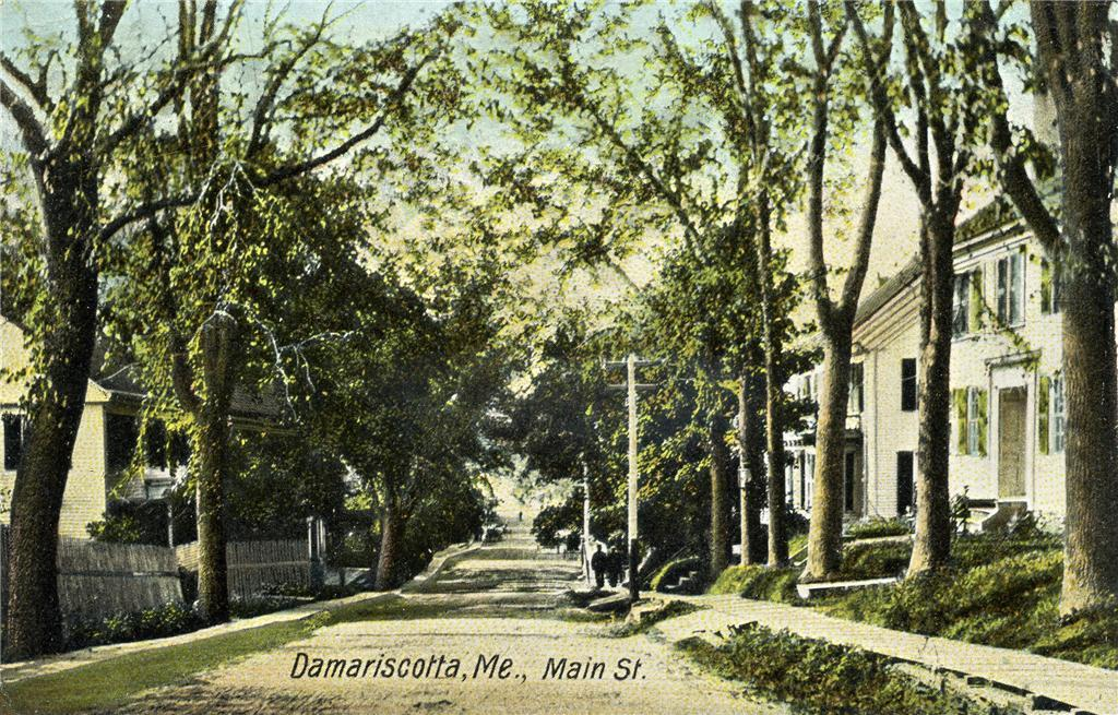 View of Main Street, Damariscotta, ME; from a c. 1907 postcard published by the Hugh C. Leighton Company, Portland, Maine.